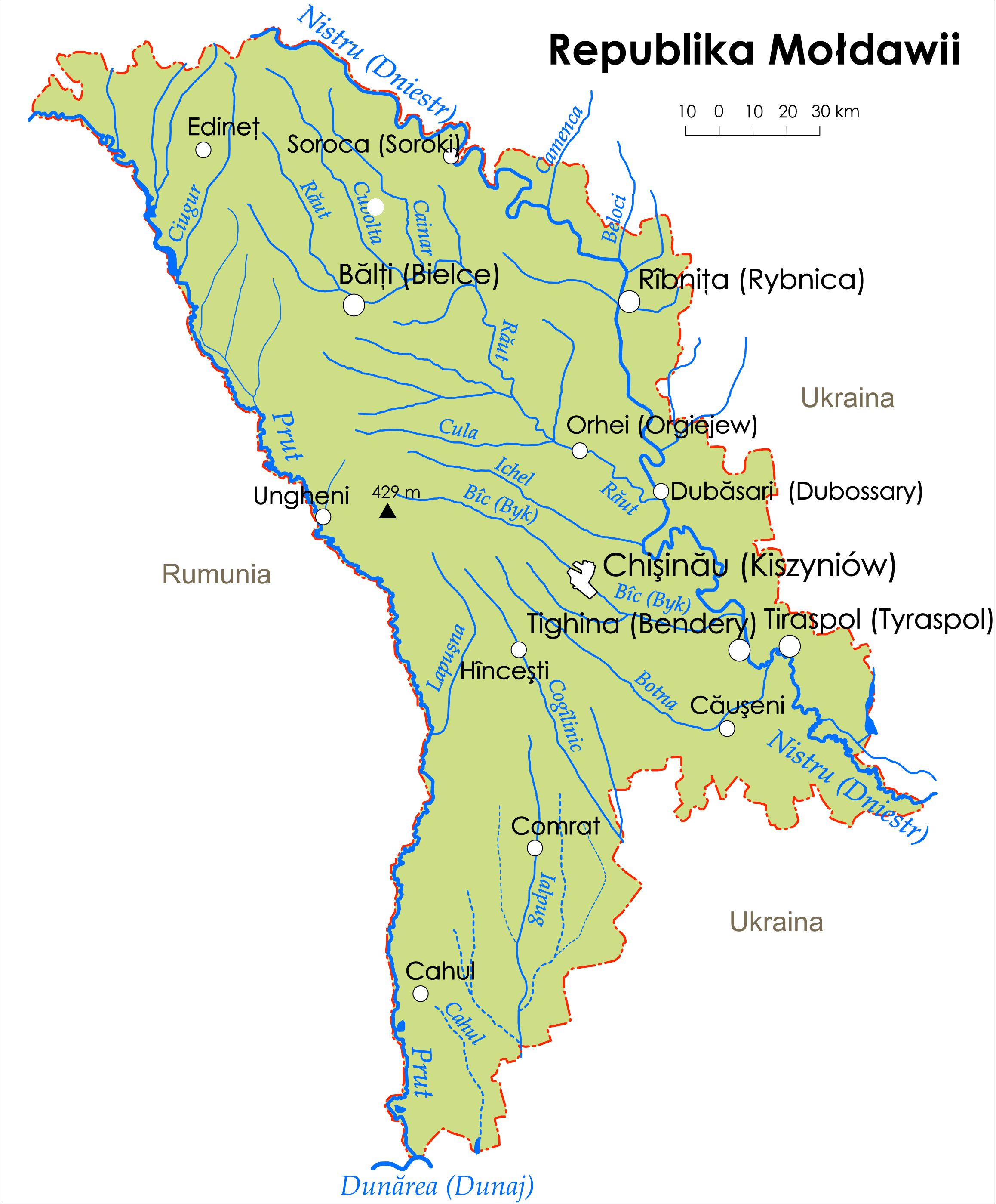 map of republic of moldova